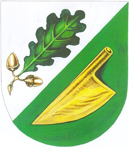 Coat of arms of the former municipality of Eichfeld, Styria